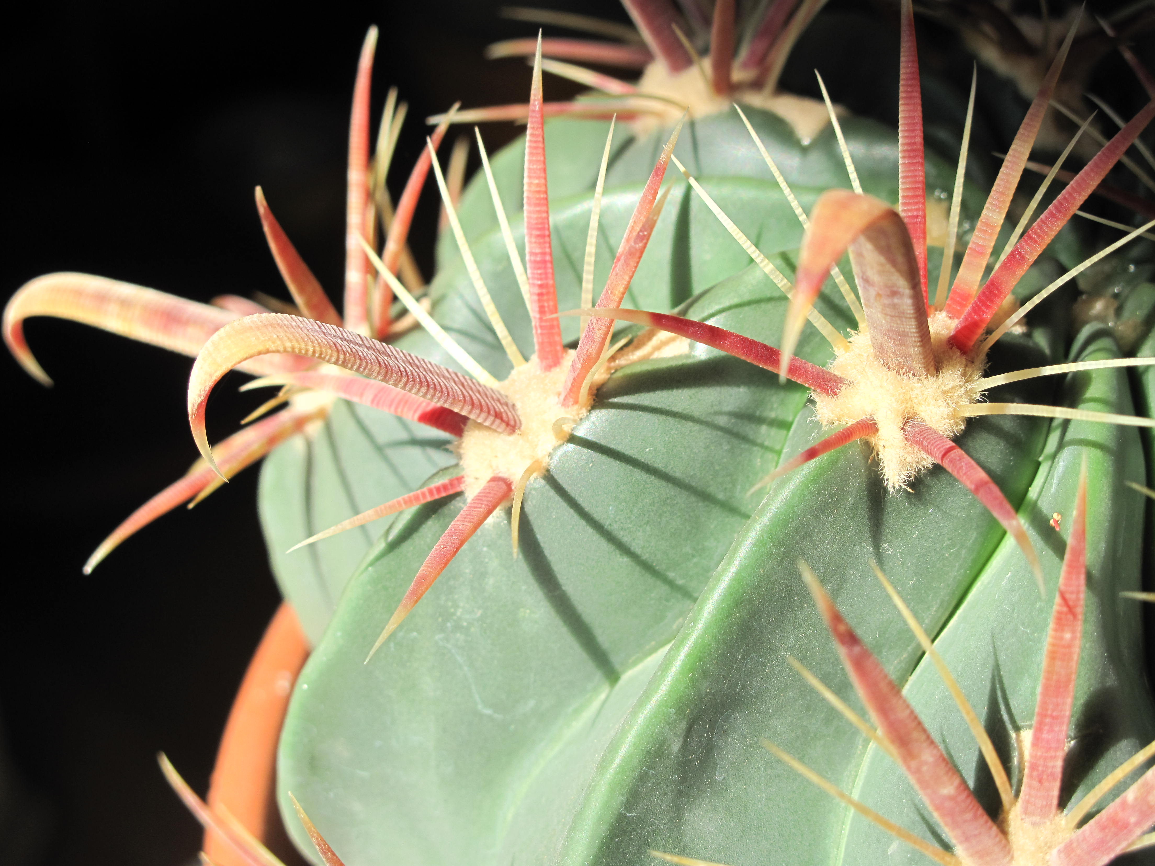 Details of Ferocactus latispinus recurvus